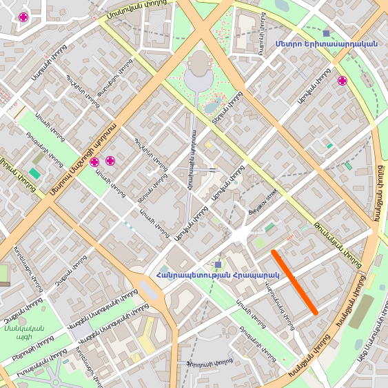 Tpagrichner street map, Yerevan